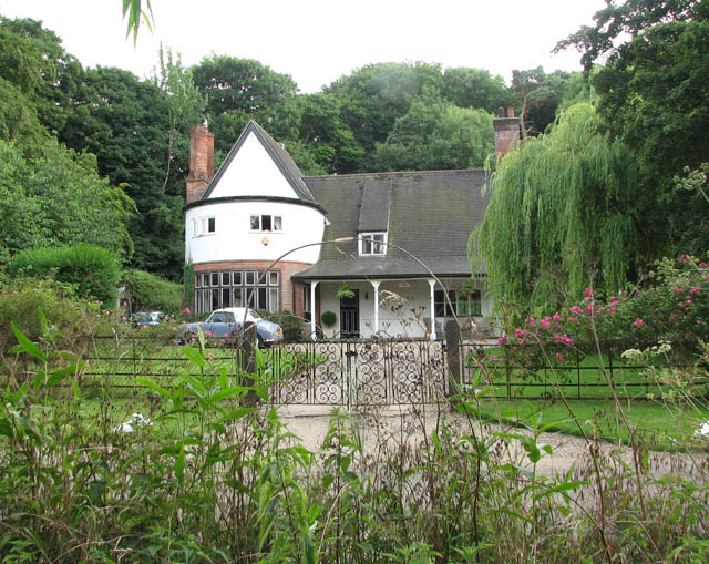 House on Whitlingham Lane